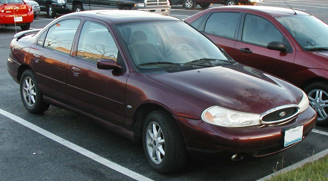 1998-2000 Ford Contour photographed in USA.